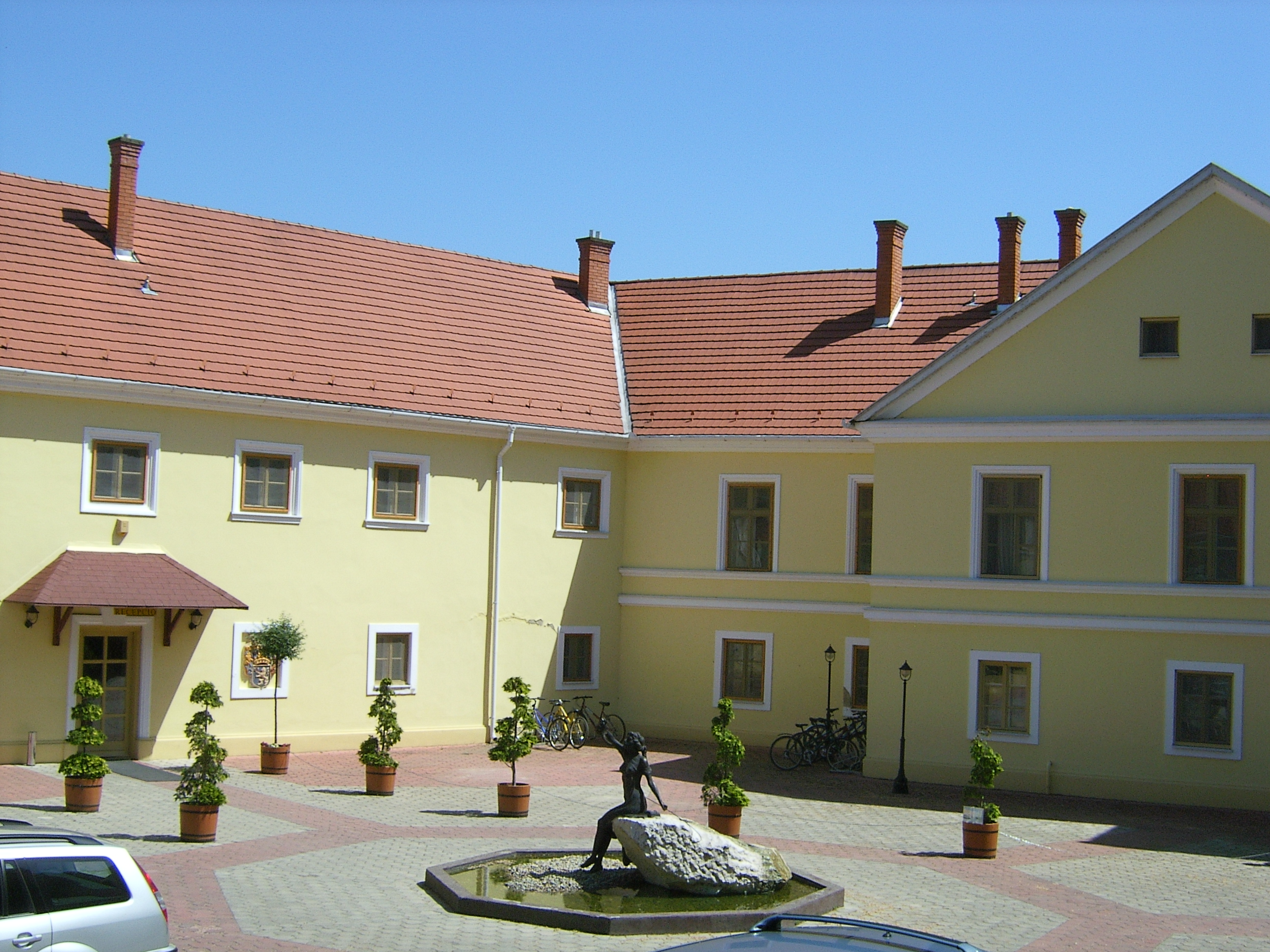 Puchner Castle, Bikal, Hungary